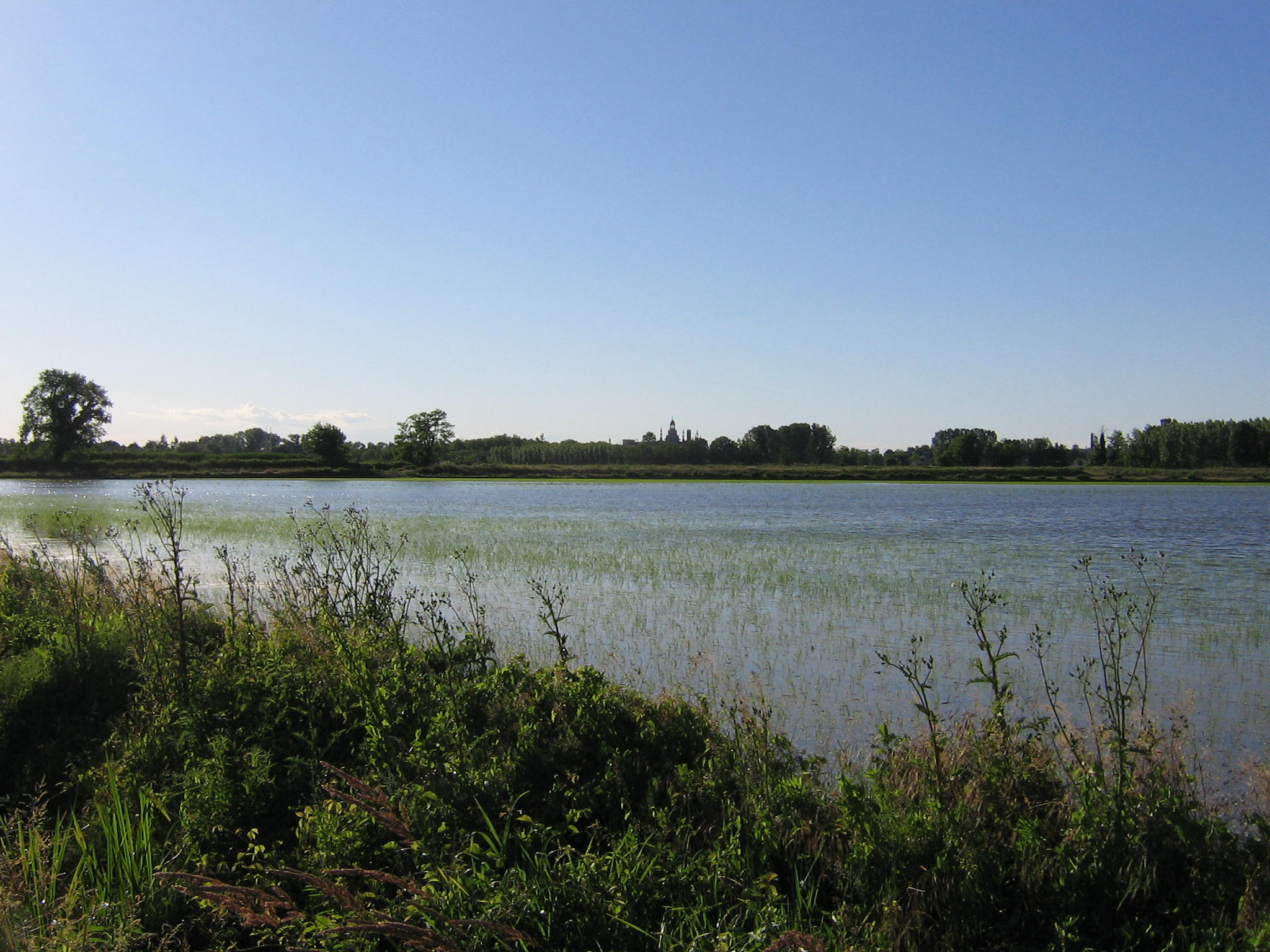 Paddy field in Pavese